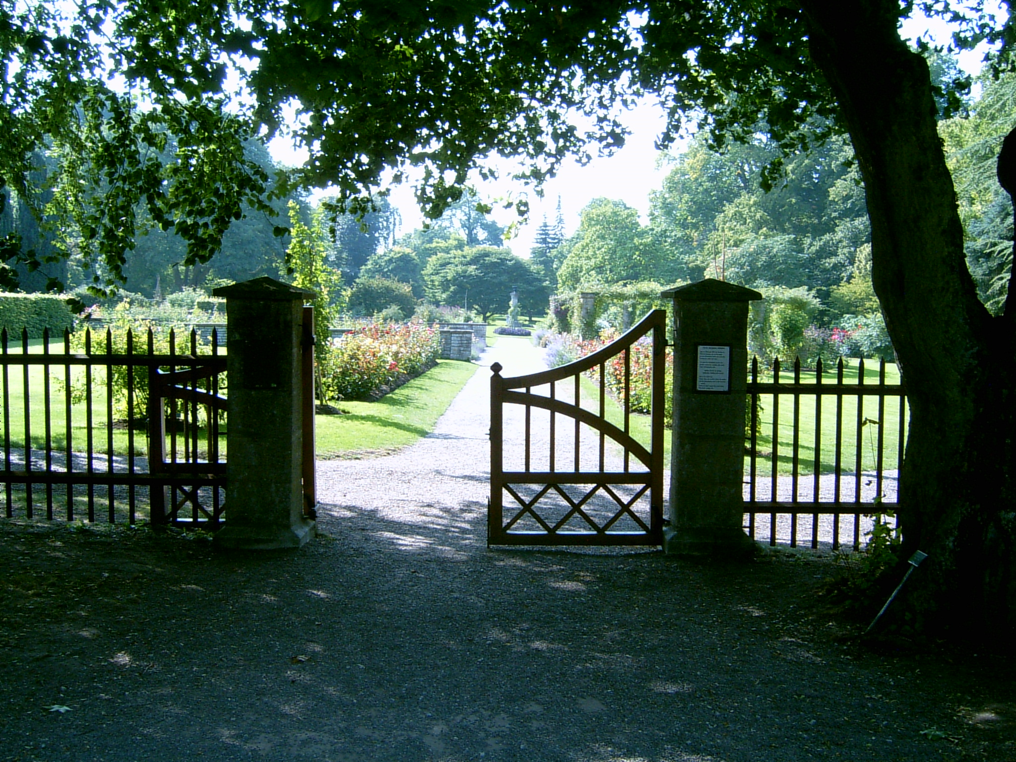 The botanic garden in Visby.